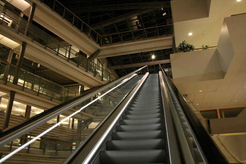 BI Norwegian School of Management, Campus Nydalen, Oslo, Norway.